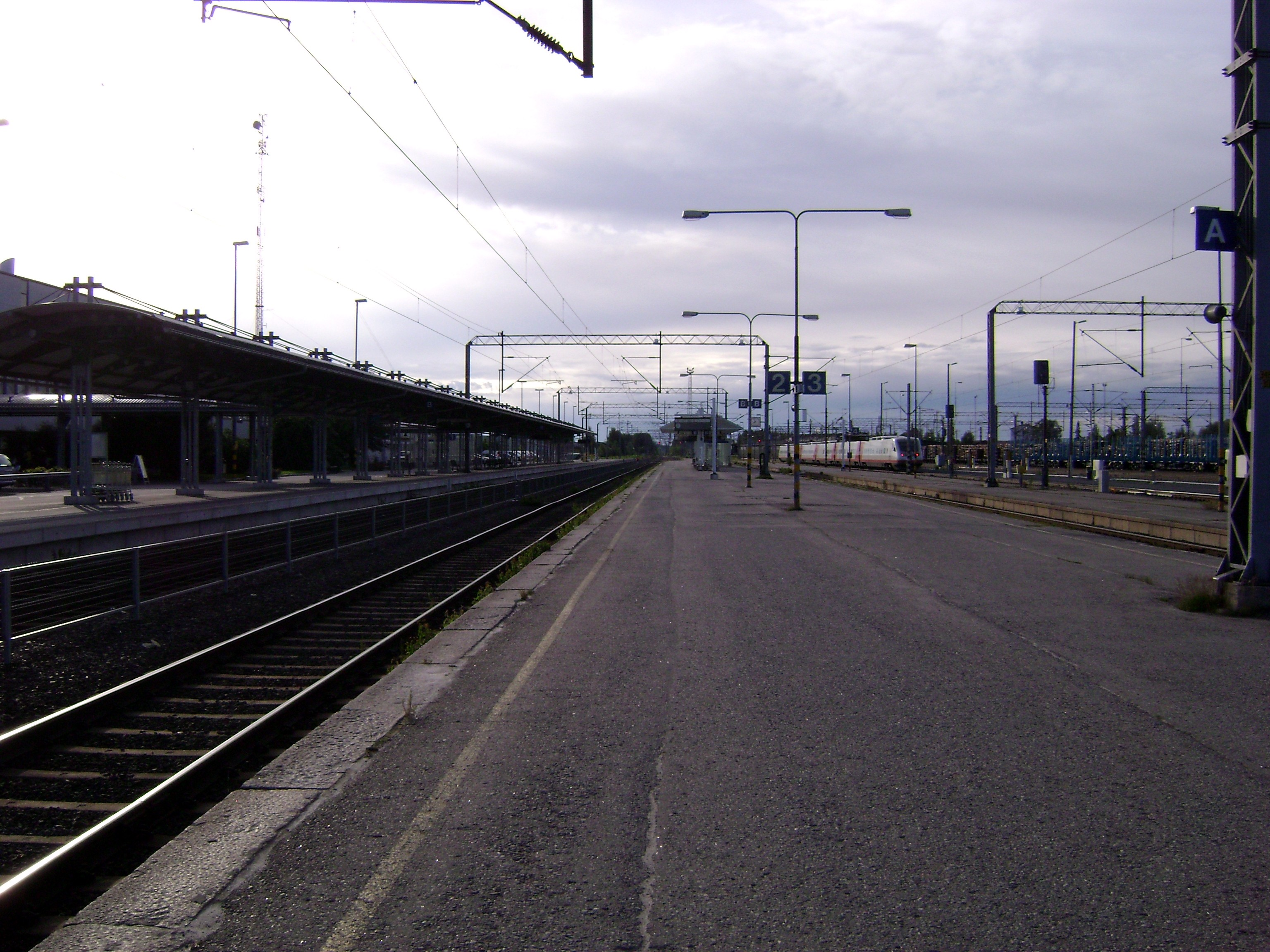 Seinäjoki railway station, platform area.